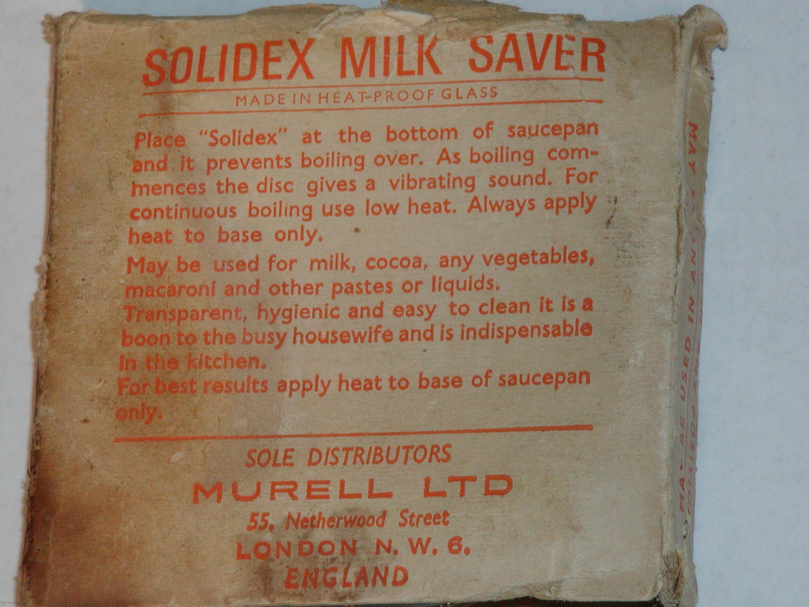 Back of package from a Solidex Milk Watcher or Milk Saver.